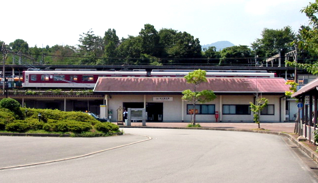 Kintetsu Isuzugawa Station